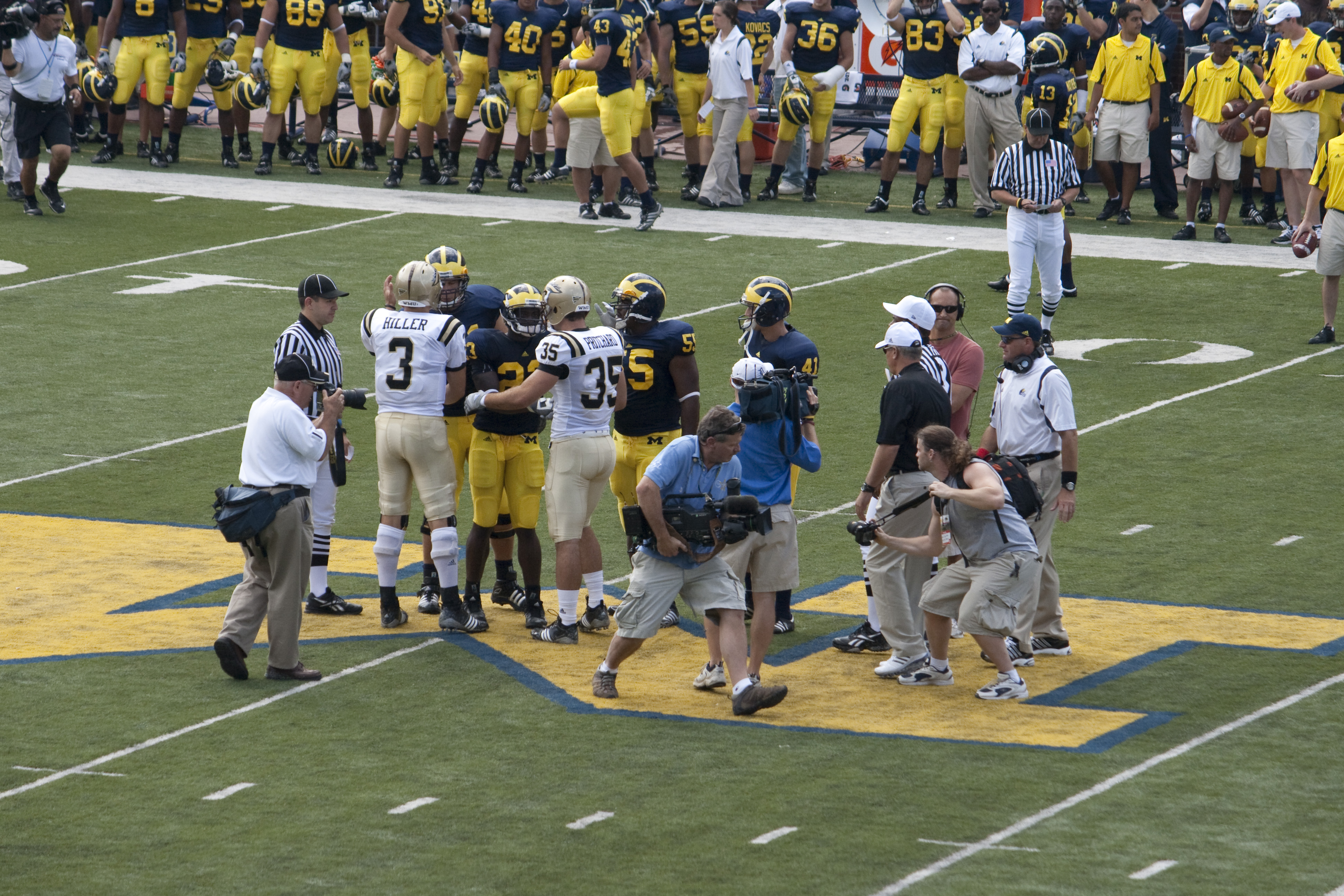 Pregame coin toss between w:2009 Michigan Wolverines football team and w:2009 Western Michigan Broncos football team. Among those pictured are Tim Hiller, Zoltan Mesko (American football), Brandon Graham (American football), Carlos Brown (American football) and Mark Ortmann (American football)